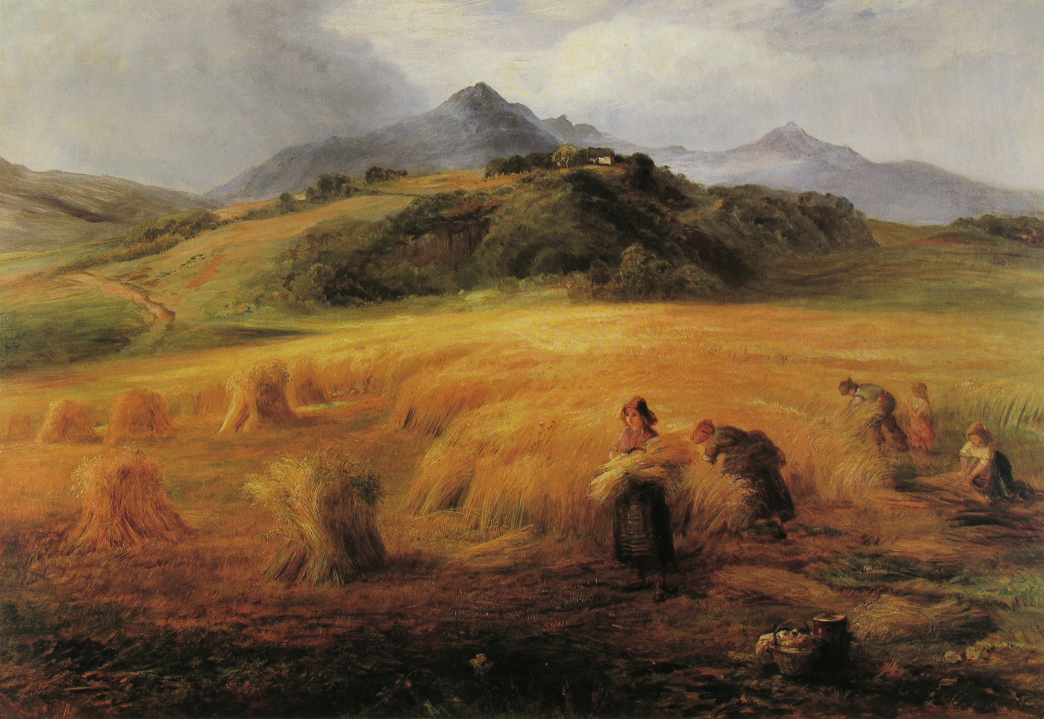 Harvesting in Arran; Oil on Canvas, 76.2 x 106.7 cm